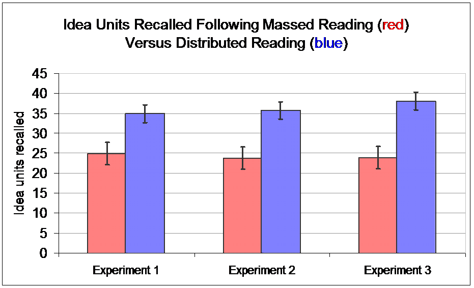 This image shows results from a series of three experiments on massed versus distributed reading reported by Krug, Davis and Glover (1990). The red bars show the mean idea units recalled by groups who read a passage twice with no intervening interval. The blue bars show the mean idea units recalled by groups who read the same passages with a one-week interval intervening between the two readings. All groups received a free recall test immediately after the second reading. Error bars are used to represent the 95% confidence interval. Krug, D., Davis, T. B., Glover, J. A. (1990). Massed versus distributed repeated reading: A case of forgetting helping recall? Journal of Educational Psychology, 82, 366-371.